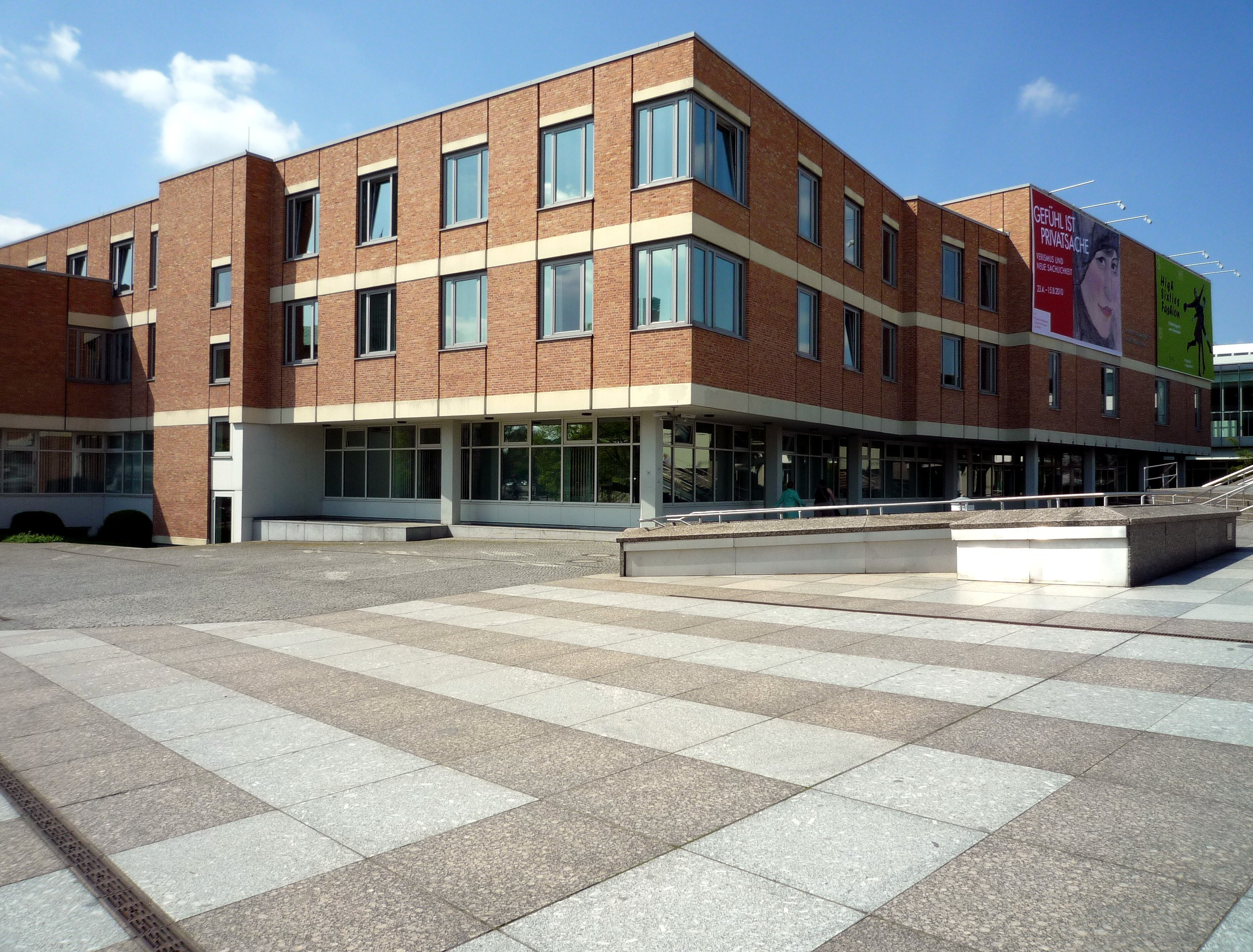 "Kulturforum" near Potsdamer Platz in Berlin. Museum of Prints and Drawings.